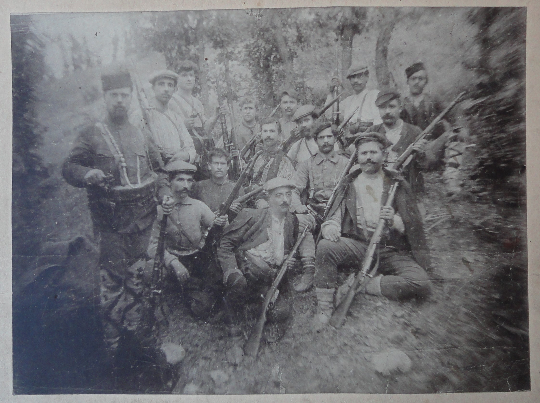 Rebels. On the photo:Apostol Petkov, Hr. Chernopeev, Mihail Chakov, Georgi Zankov, Stefan Chavdarov, Dzhelyo voyvoda, Atanas Bozukov and others.